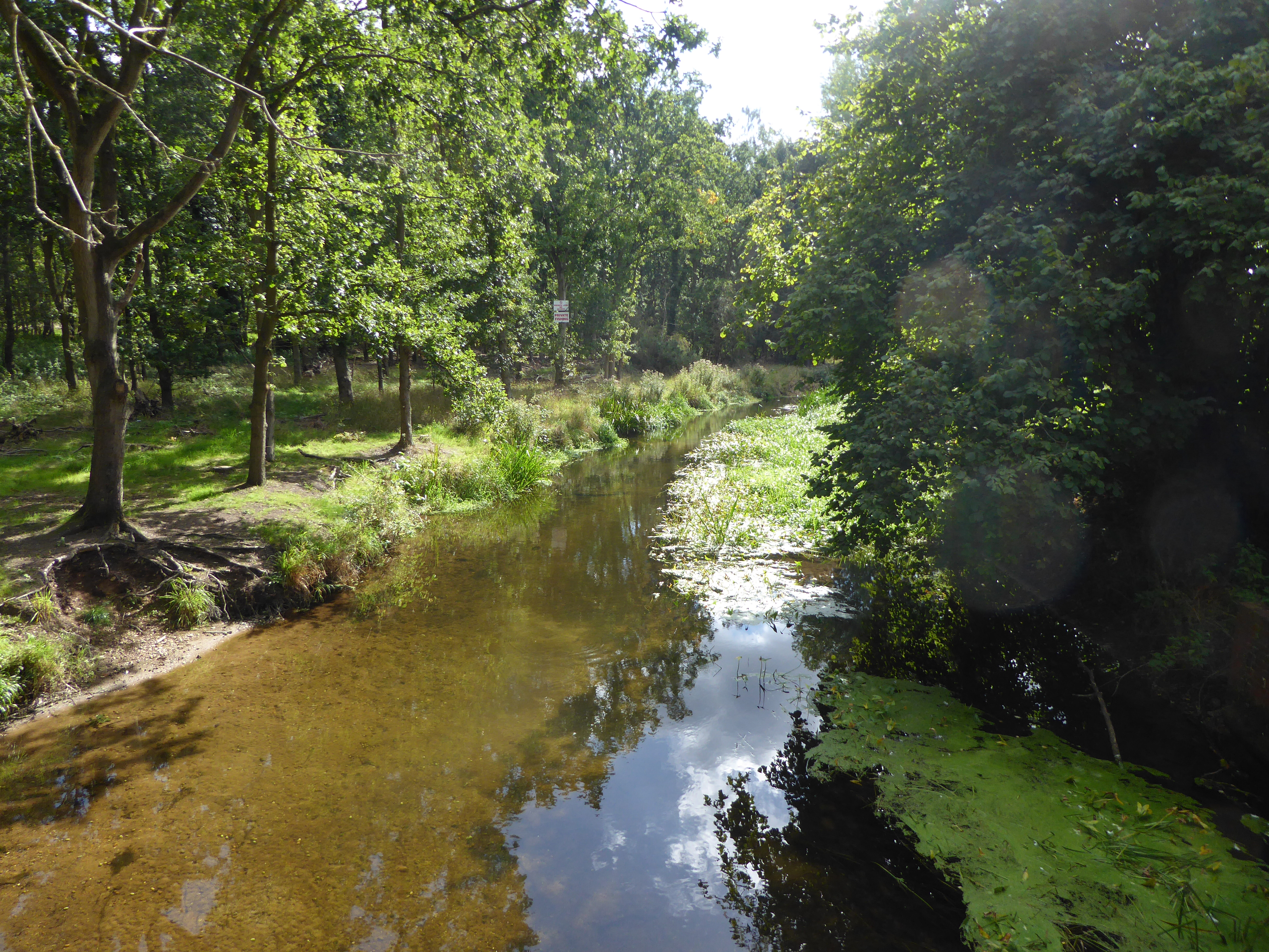 The stream runs east from Didlington Park Lakes, a Site of Special Scientific Interest near Didlington in Norfolk.